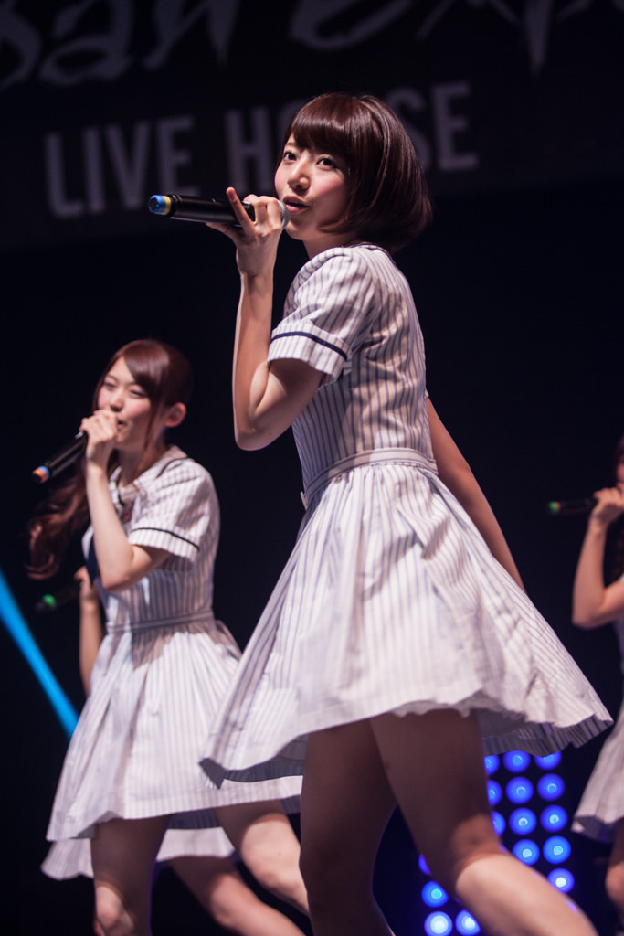 Nogizaka46 live performance at the JAPAN EXPO 2014 in Paris, France. Nanami Hashimoto (front) & Sayuri Matsumura (behind), members of the 16 chosen participants.